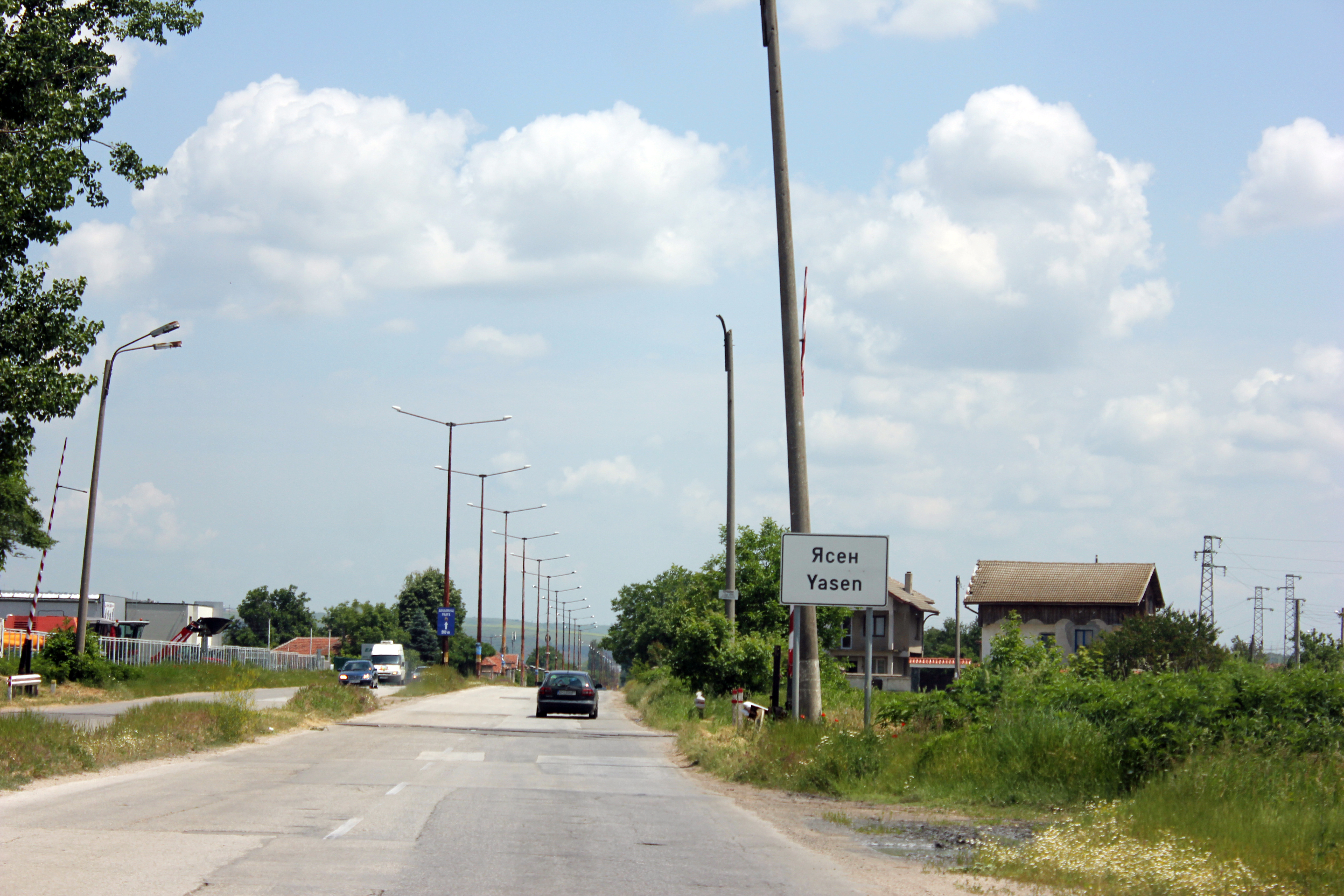 Entrance to Yasen village, Bulgaria